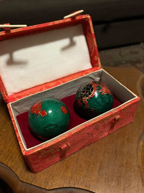 Baoding balls resting in their case